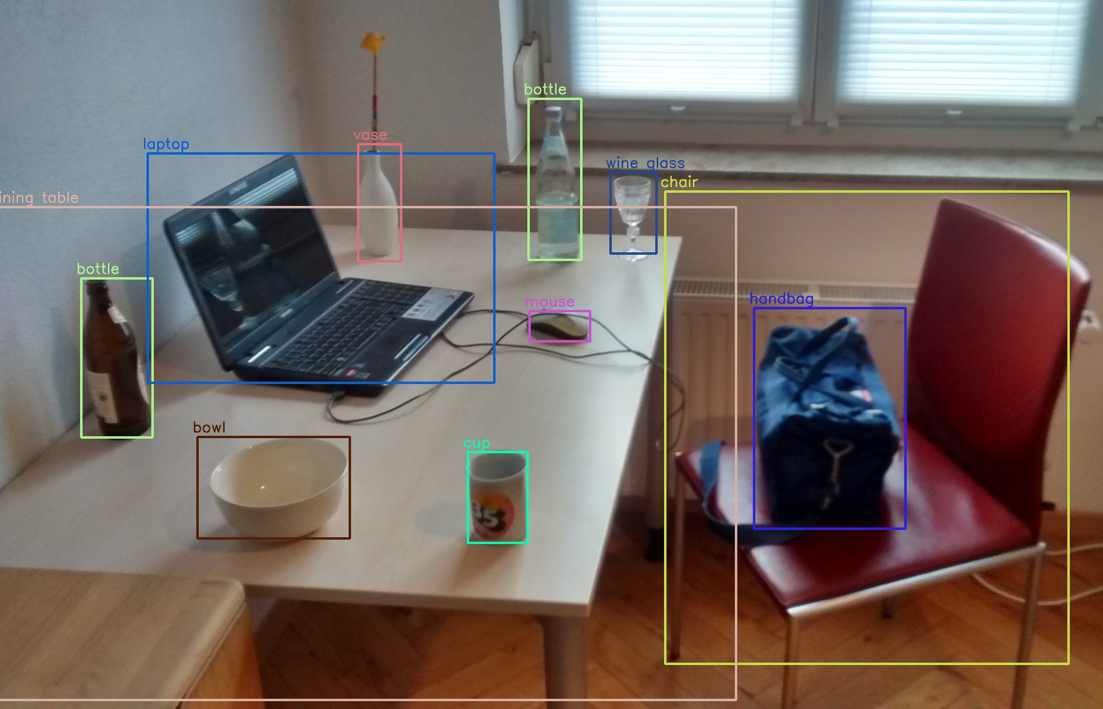 Objects detected with OpenCV's Deep Neural Network module (dnn). Reading a network model stored in Darknet model files.It uses a YOLOv3 model trained on COCO dataset capable of detecting 80 common objects in context. Original image: Schreibtisch-mit-Objekten.jpg